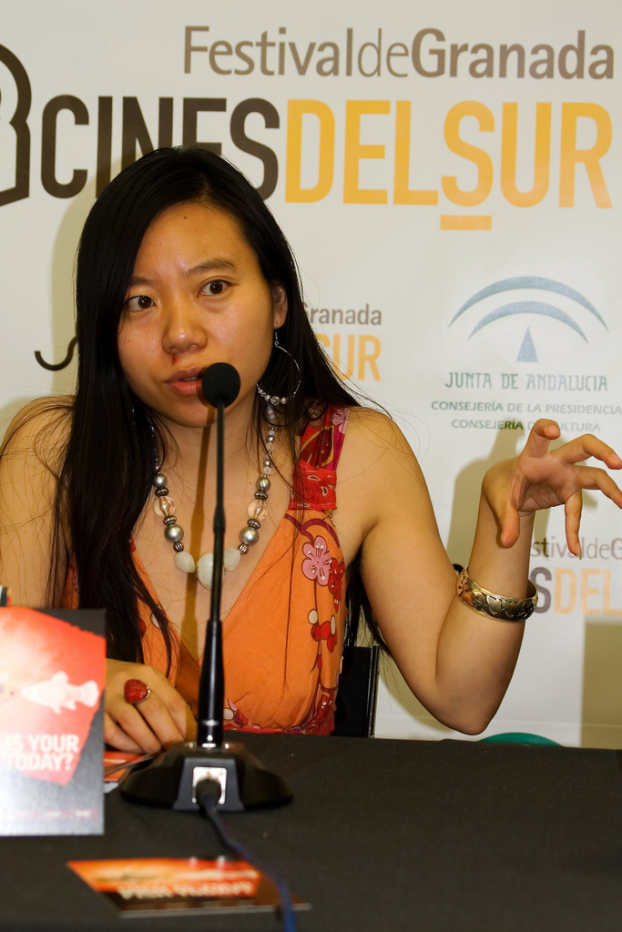 The chinese filmmaker during the presentation of her film How Is Your Fish Today?, Official Section of Cines del Sur 2007